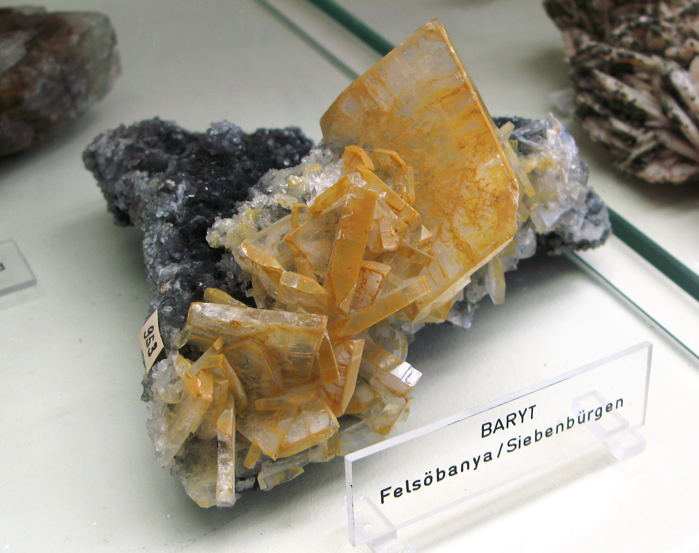 Baryte - Locality: Felsöbanya, Siebenbürgen - Exposed in the Mineralogical Museum, Bonn, Germany